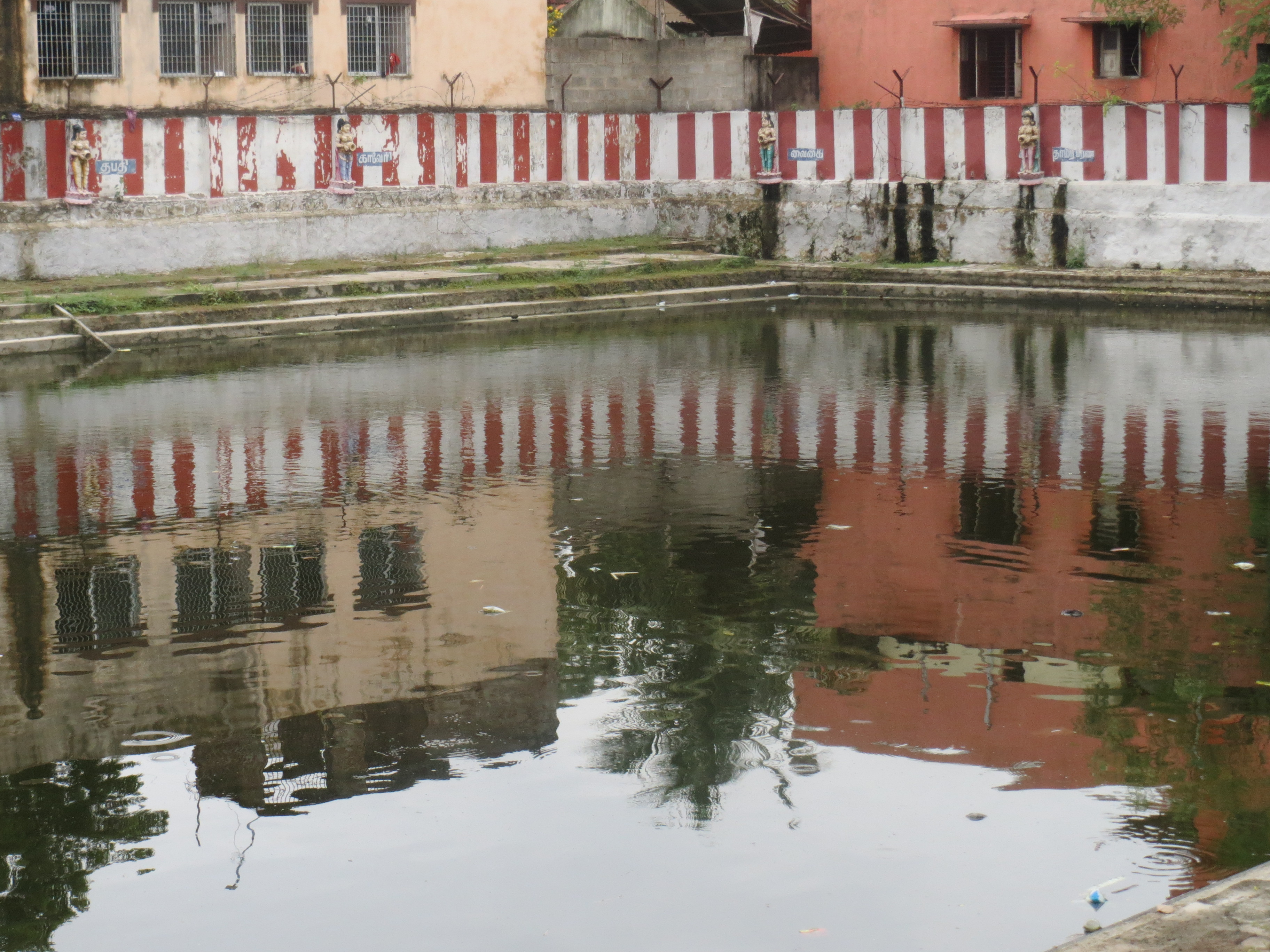 Temple tank--Amirthakadeswarar koil at Selaiyur in chennai.